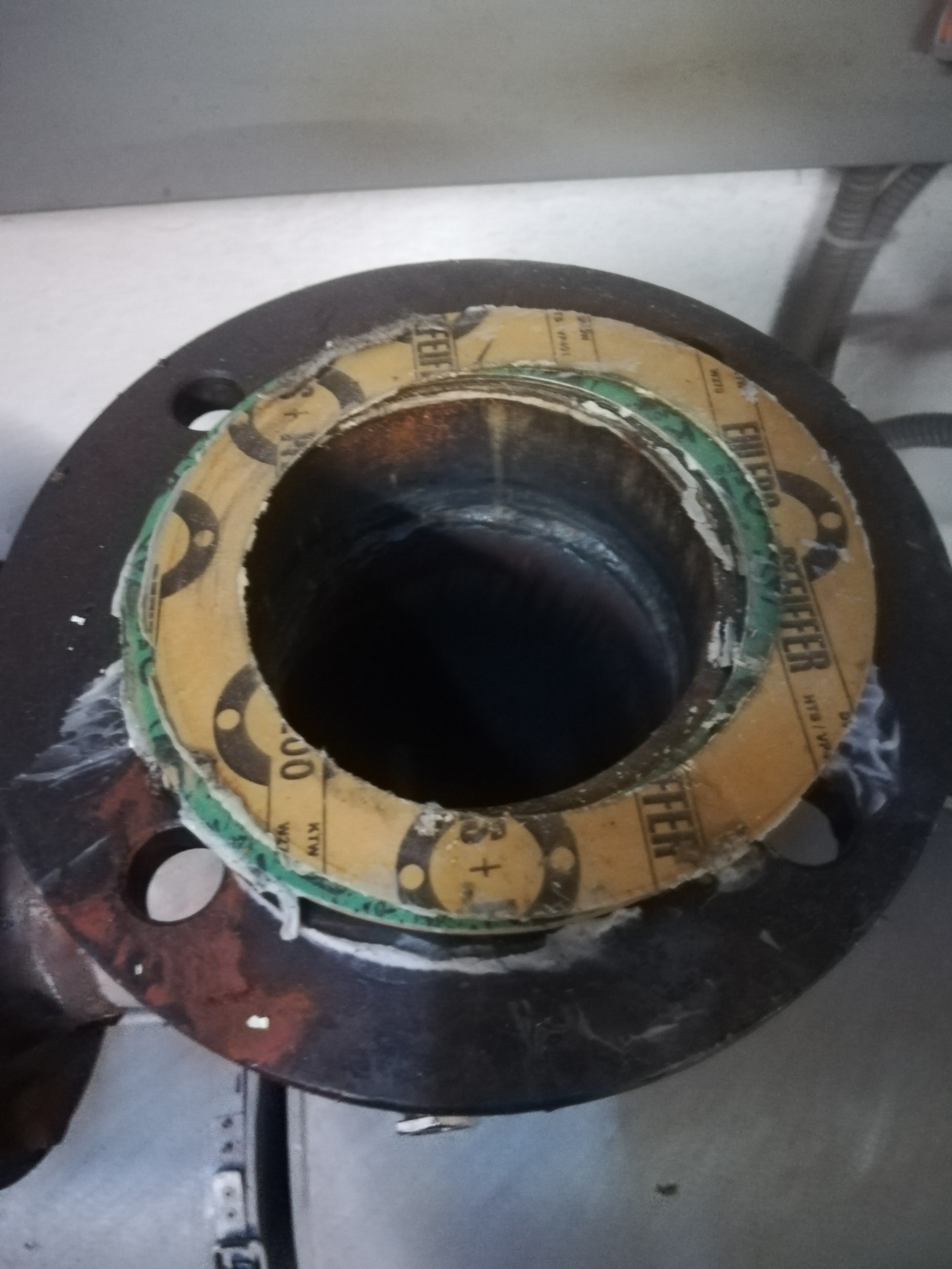 Gasket, containing chrysotile asbestos Dismantling during a redevelopment according to the TRGS 519